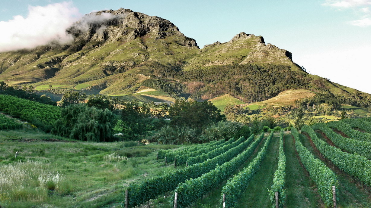 Vineyards in the South African wine region of Stellenbosch